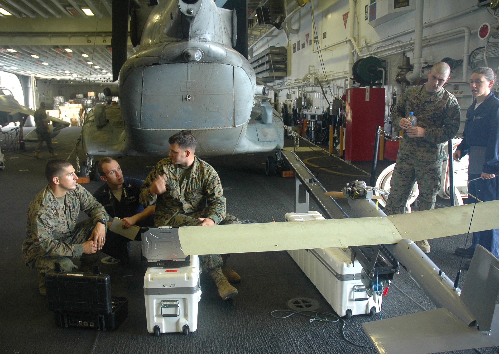 Pacific Ocean - Marines with the 15th Marine Expeditionary Unit (MEU) shows the "Silver Fox" Unmanned Aerial Vehicle (UAV) to Sailors aboard the amphibious assault ship USS Boxer (LHD 4). The 15th MEU and Boxer are part of Expeditionary Strike Group Five (ESG), which is currently participating in Composite Training Unit Exercise (COMPTUEX) off the coast of Southern California. (RELEASED)